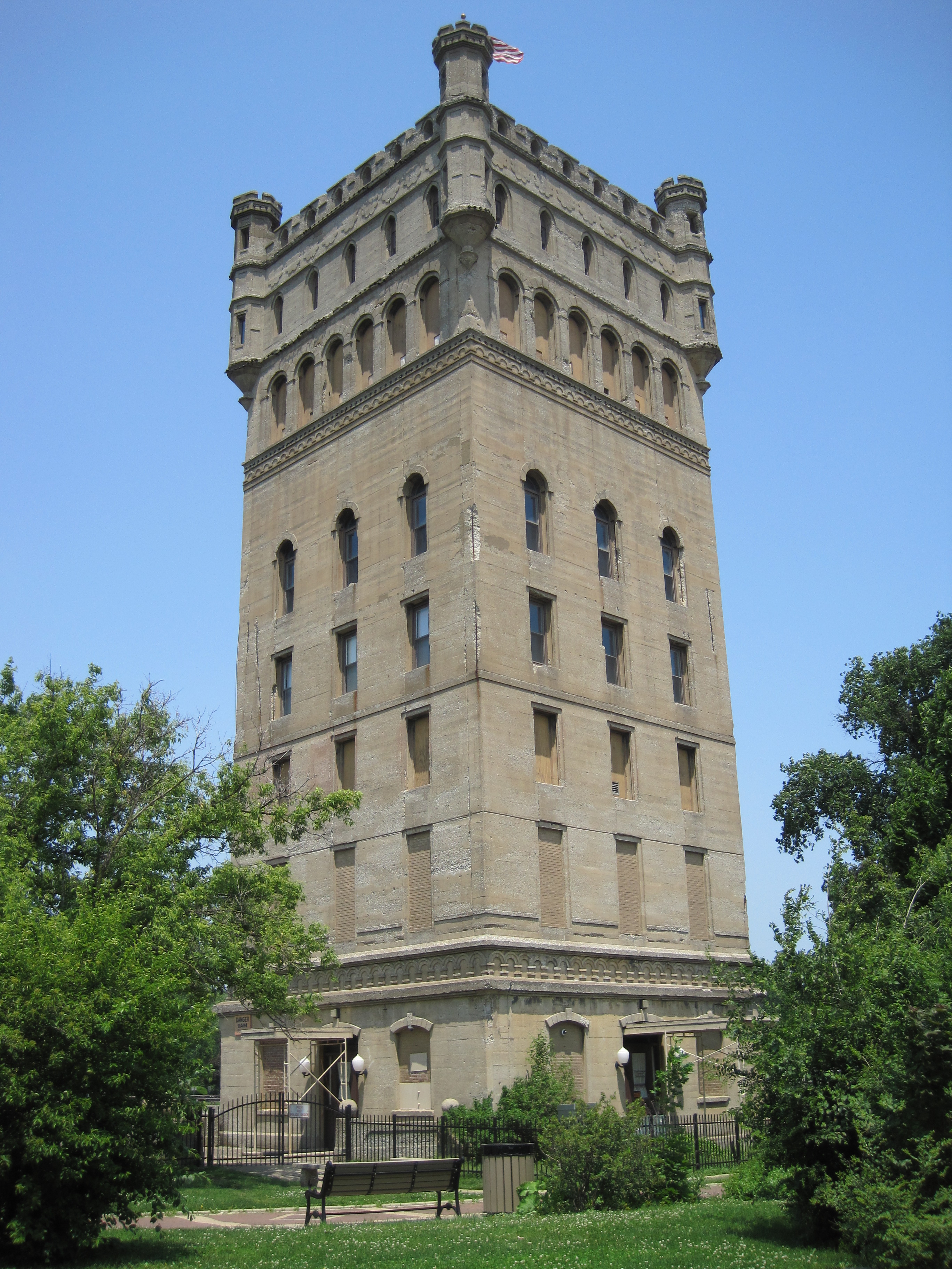 I (Teemu08 (talk)) took this image on June 7, 2011